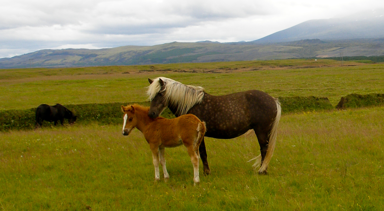 Icelandic mare and foal